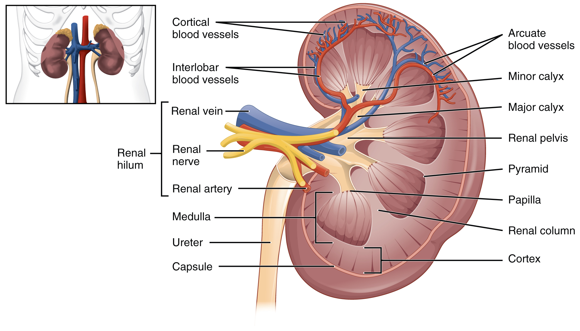 Illustration from Anatomy & Physiology, Connexions Web site. Jun 19, 2013.